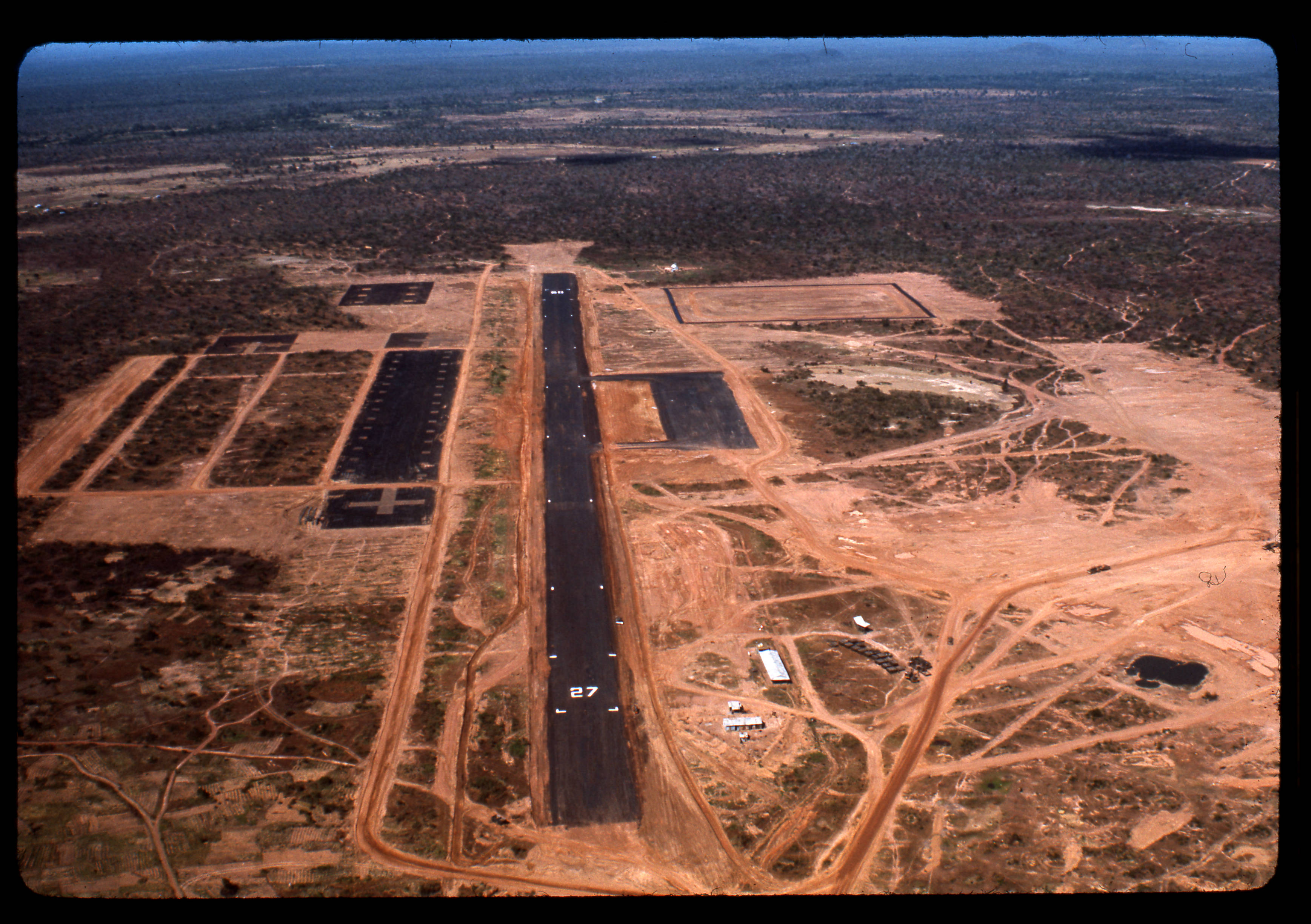 Song Mao located approximately half way between Phan Rang and Phan Thiet. B Company, 87th Engineer Battalion has been involved in upgrading this airfield from CV2 to a C-130 capability. The runway as shown here has a laterite surface treated with asphalt cutback but preparations are being made for the placing of M8A1 matting. Also being constructed here on the left hand side of the runway is a forward support area for helicopters which will feature six Chinook pads in the background and 87 AG1B pads in the center portion of the photograph. A forward supply area for Classes I, III, and V will be constructed in the right hand side of the photograph. The Class III area located in the upper right hand corner of the photograph has been completed. Work on this airfield and support area began on 8 December.